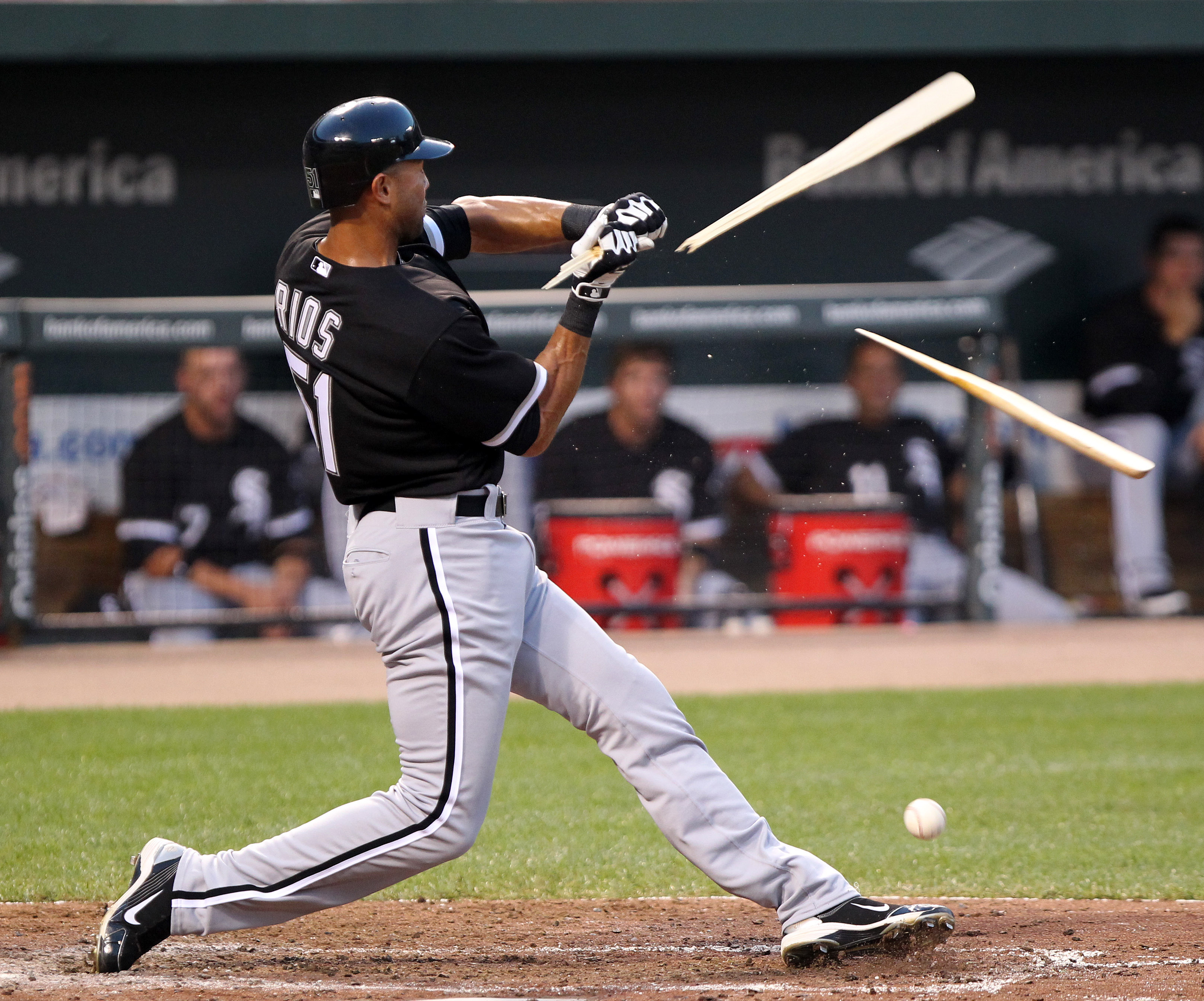 Chicago White Sox Alex Rios breaks his bat in a 2011 game